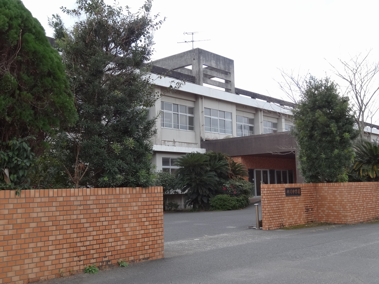 The Ruin of Kamikawa Junior High School (Onejime, Kinko Town, Kagoshima, Japan)